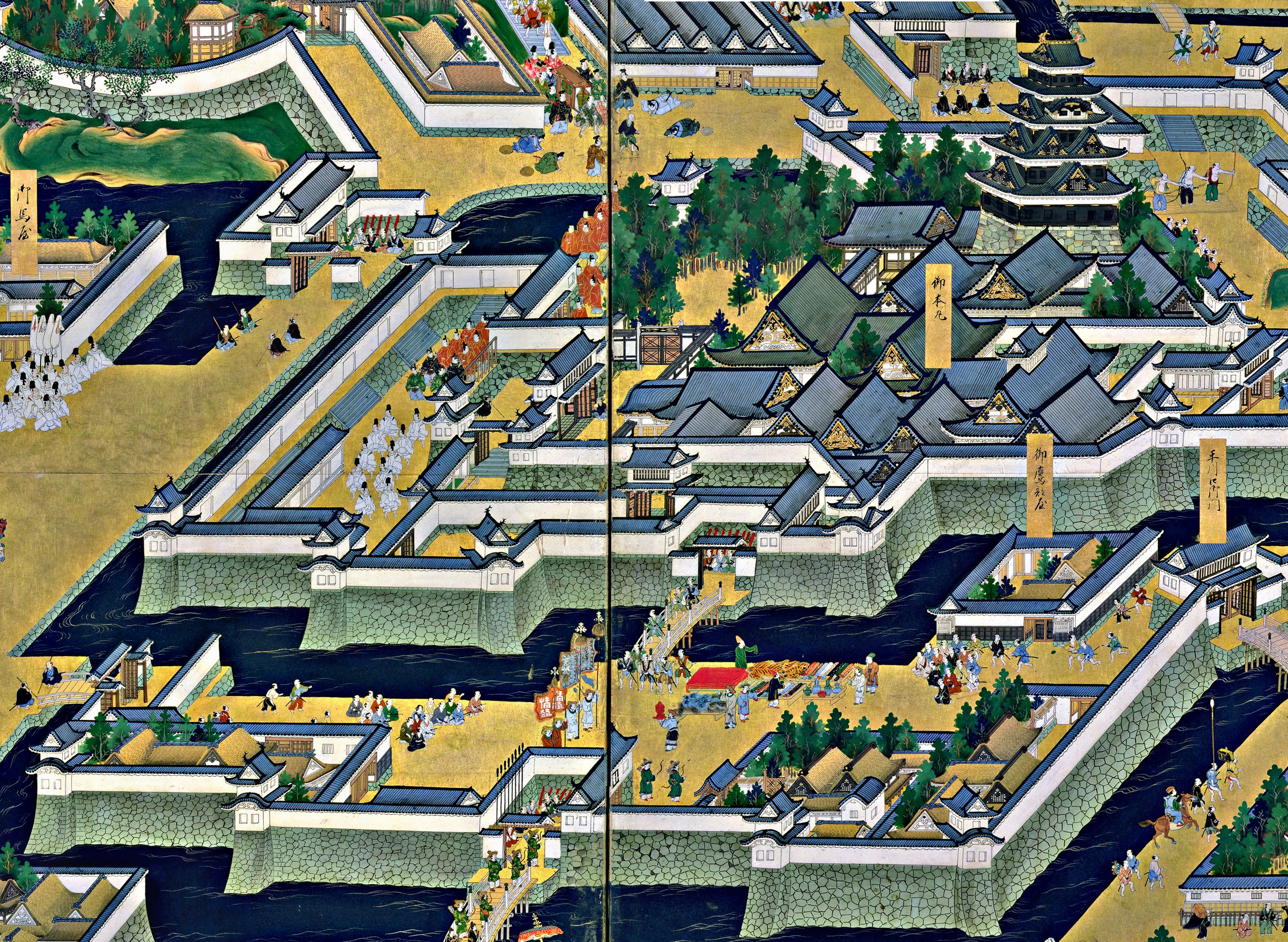 Upper middle of first panel, left screen. Central enciente of Edo Castle, Castle Tower, Bairinzaka, Hirakawaguchi Gate. Edo Castle tower (upper middle of first panel, left screen). The Edo Castle tower looms large in the left screen as if to accentuate Iemitsu's grand enterprises. This tower was the third to be constructed for Edo Castle. It was completed in 1638 (Kan'ei 15). Its height from the base is over 60 meters. During the great Meireki fire of 1657 (Meireki 3), however, the tower was destroyed and never rebuilt again. "View of Edo" (Edo zu) pair of six-panel folding screens (17th century).